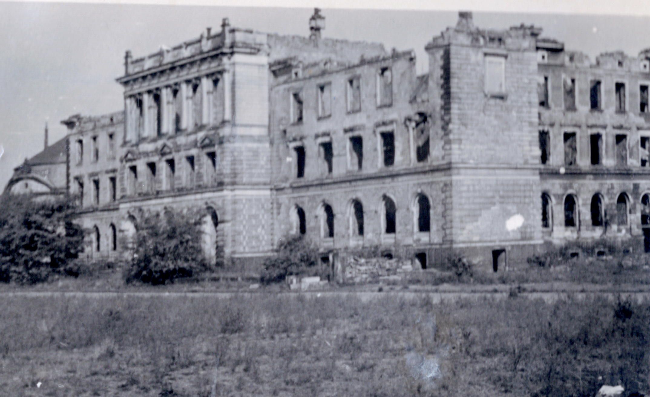 Ruin of the Annenschule in Dresden, taken in early 1948, destroyed during the bombing on February 13, 1945